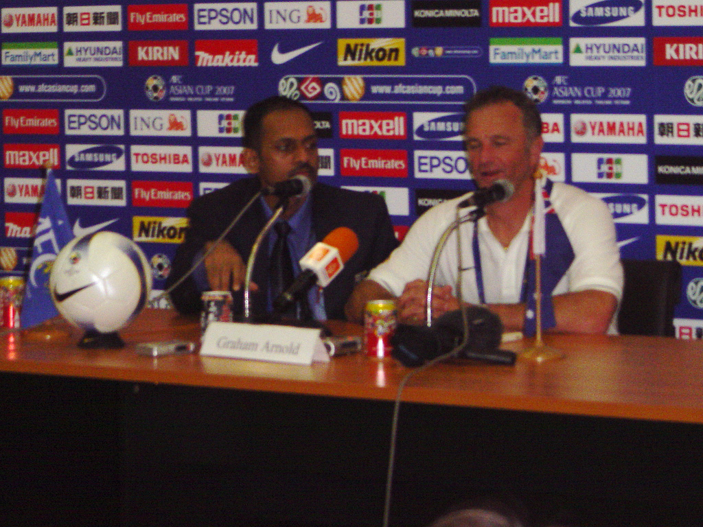 Australian Football coach Graham Arnold at the post match press conference.